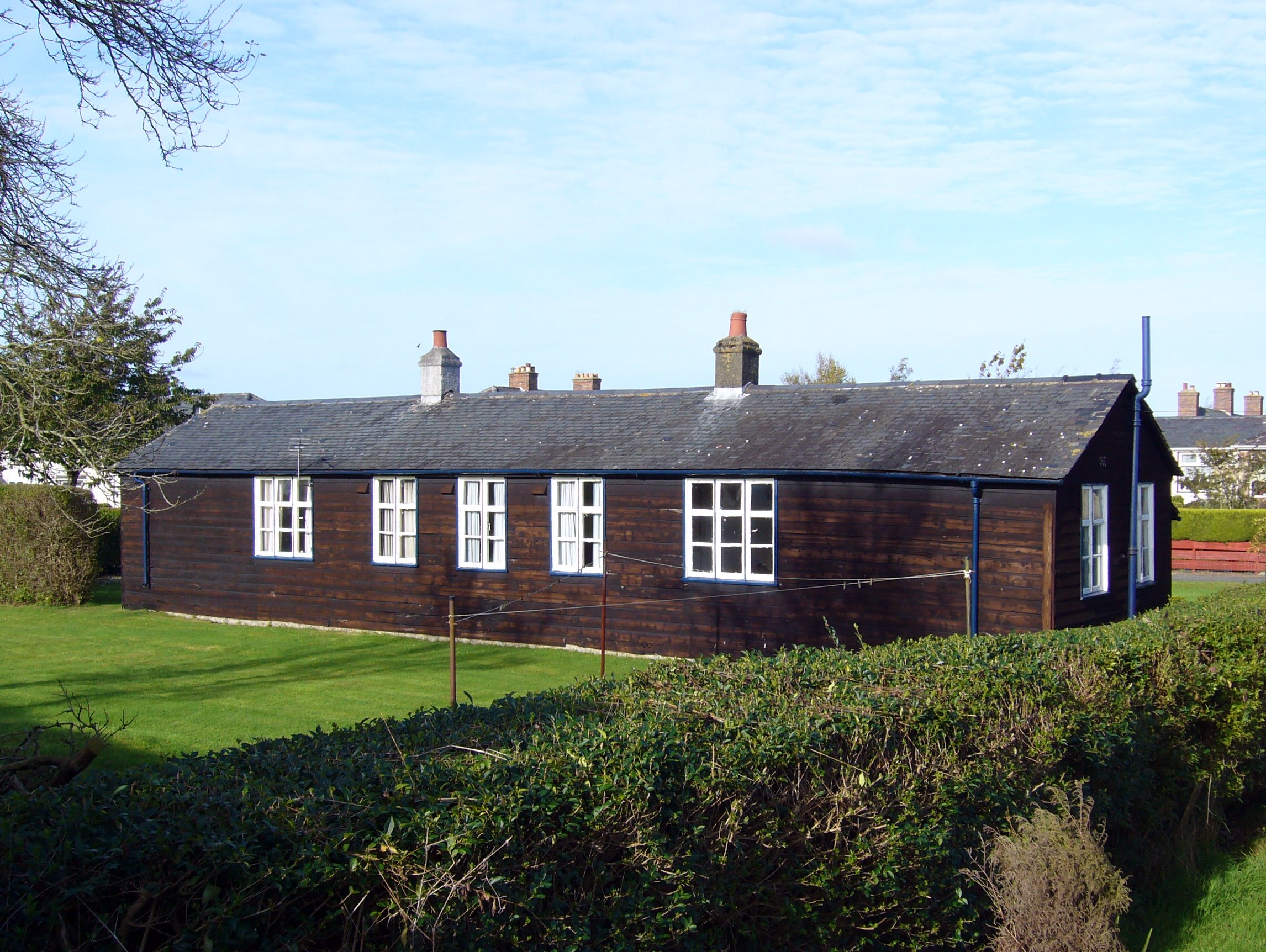 Photo of an original wooden house in Eastriggs, Scotland. Photo taken on 29 Oct 2006. Building was demolished at the end of March 2010.